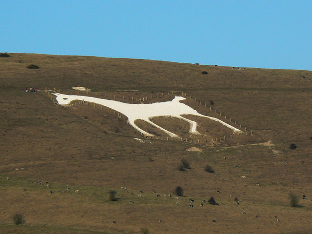 Alton Barnes White Horse The chalk figure is here viewed from a distance of 1.6 kilometres south-west of the horse. The horse was designed and cut in 1812 so it will reach its 200th birthday in time for the London Olympics. More about the horse, and the others in Wiltshire, here